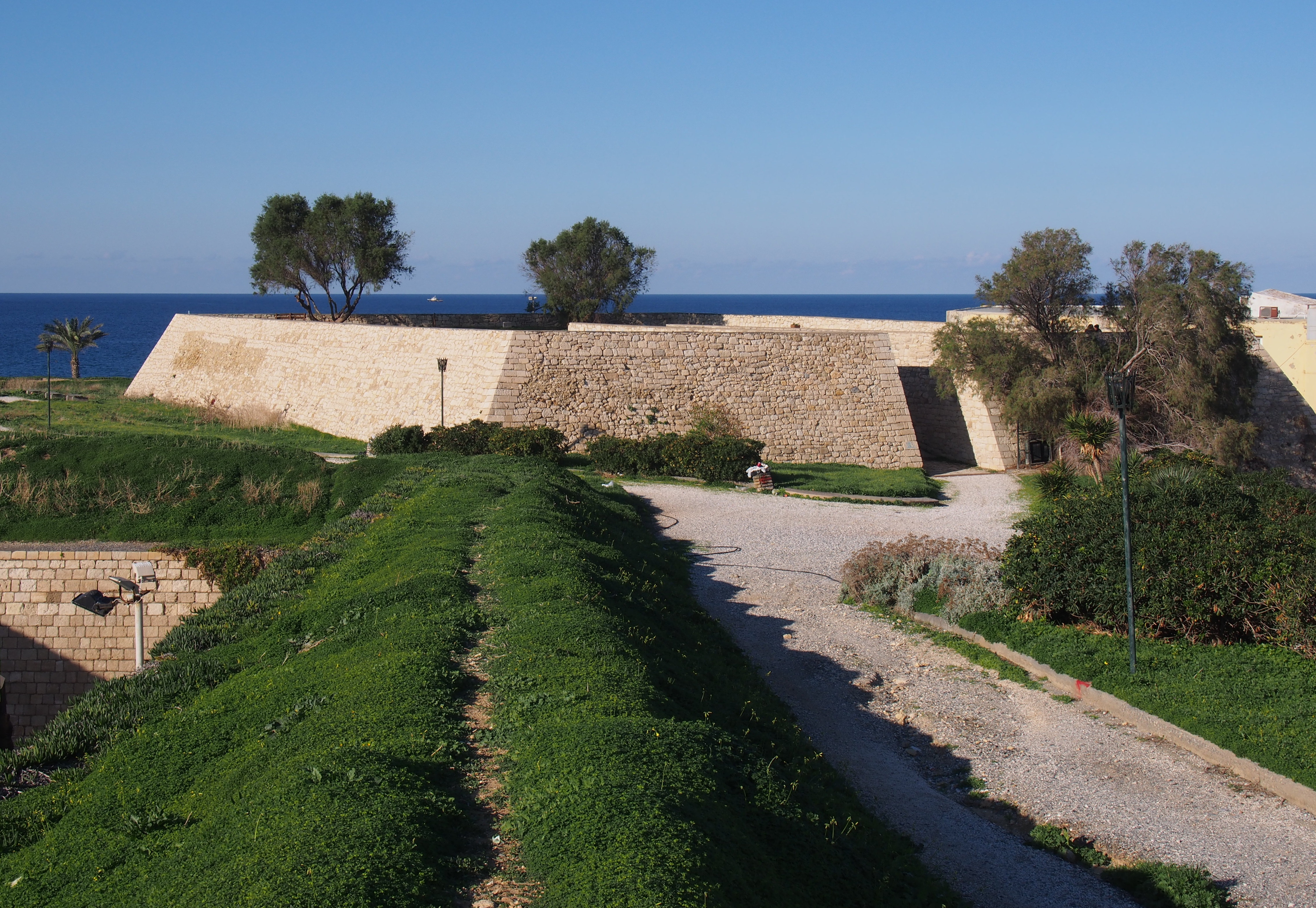 The top of Saint Andrew bastion, Heraklio.